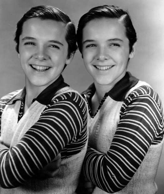 Twin child actors Billy and Bobby Mauch, circa 1930’s.